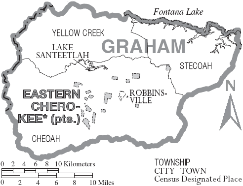 Map of Graham County, North Carolina, United States with township and municipal boundaries